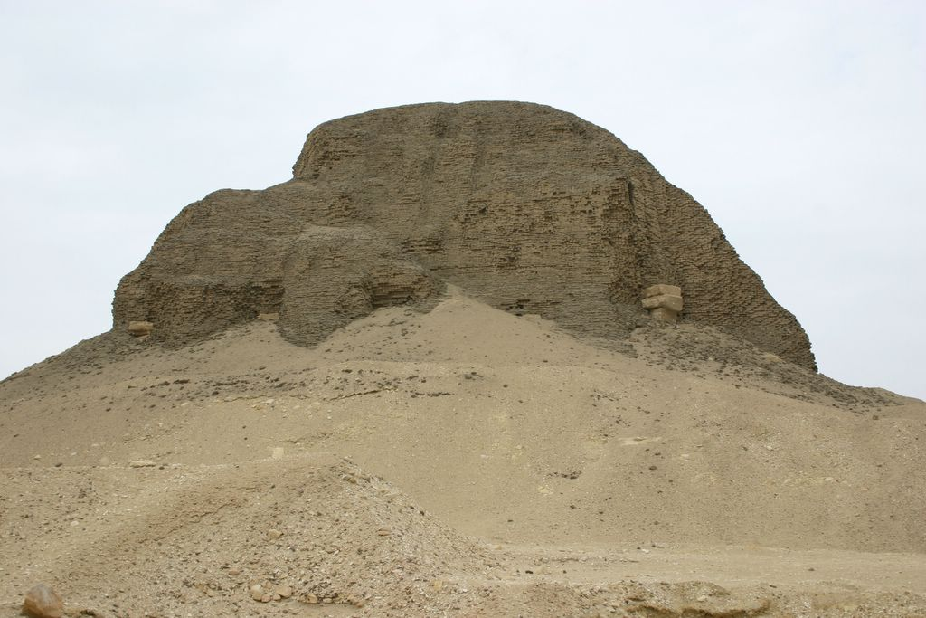 The Pyramid Senusret II near Lahun